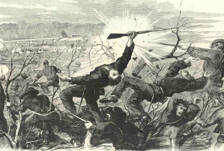 Battle of Munfordville. Kentucky, Sunday, Sept. 14th 1862. Harper's Pictoral History of the Great Rebellion